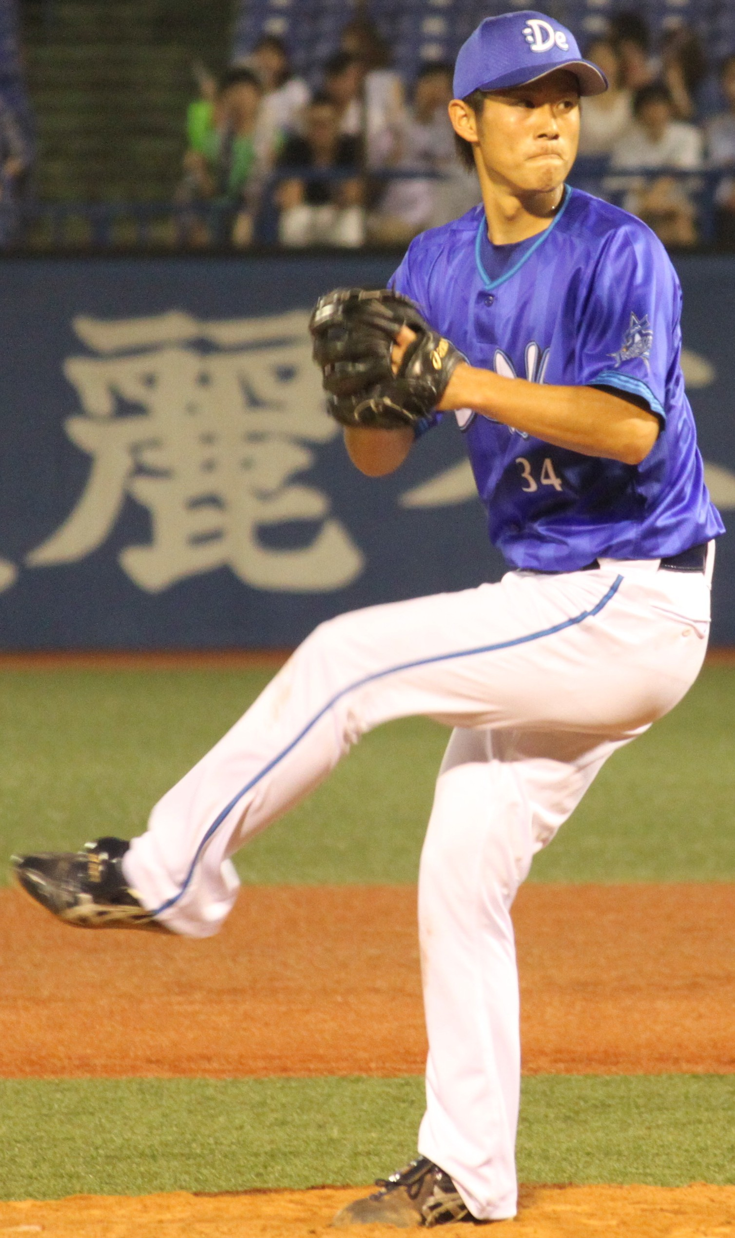 Shingo Hirata, pitcher of the Yokohama DeNA BayStars, at Meiji Jingu Stadium.